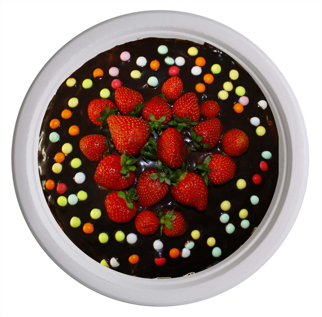 The Chockolate Cake